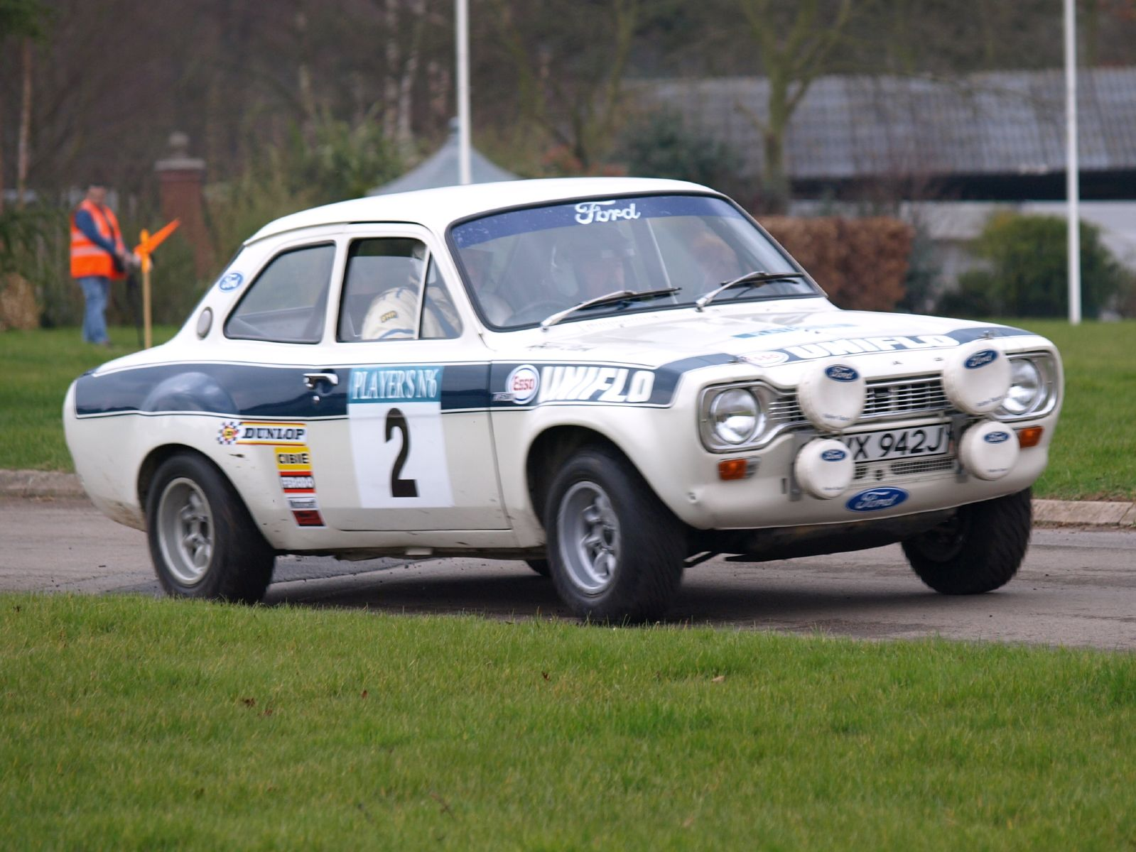 Roger Clark's References for this description (or part of this) or for the depiction in the file are not provided. Reason: 1972 RAC Rally -winning. Ford Escort RS1600 driven at Race Retro 2008, the International Historic Motorsport Show, at Stoneleigh Park, Coventry, England.